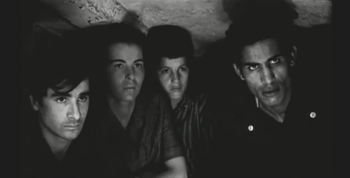 Screenshot of La battaglia di Algeri